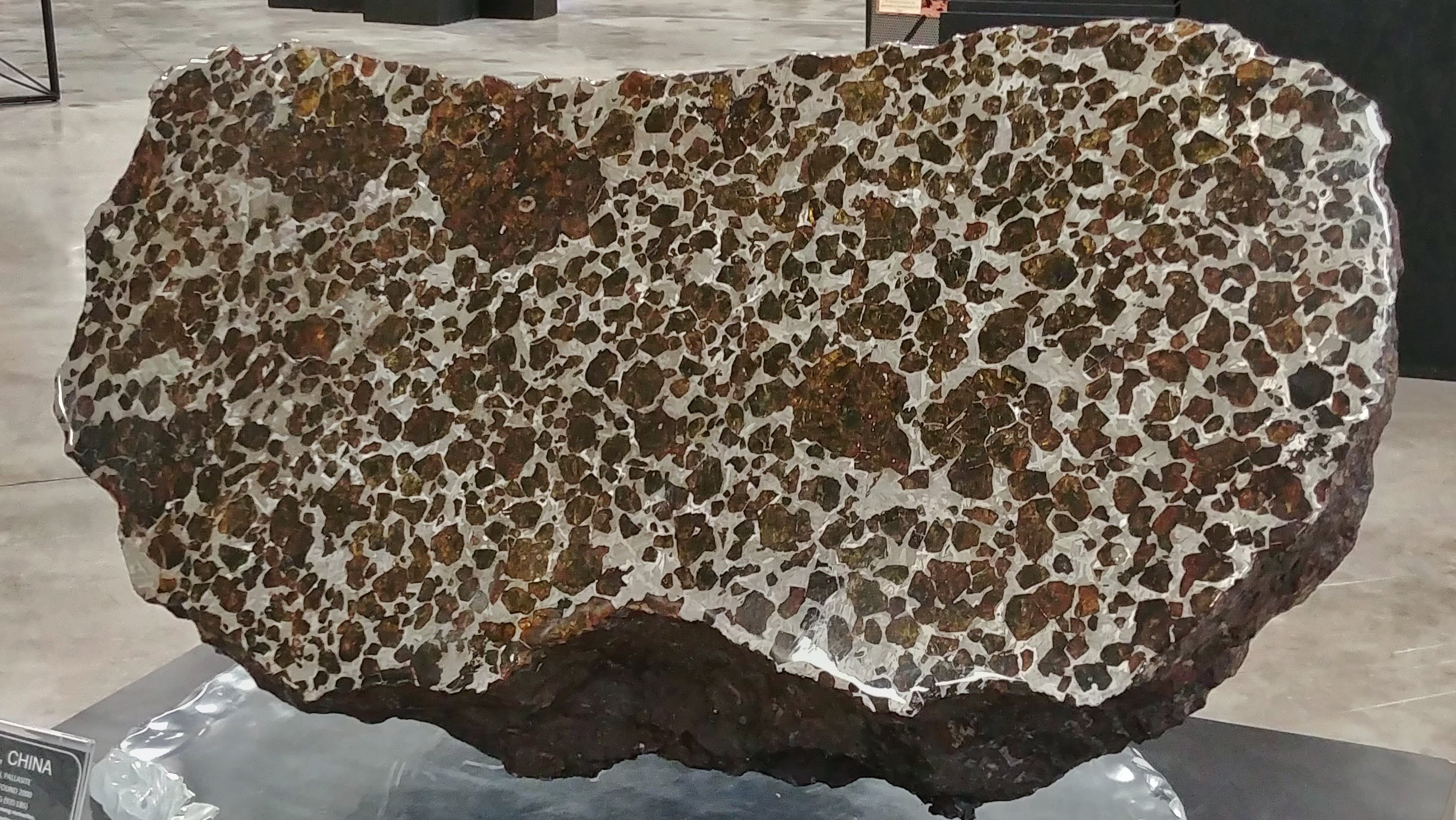 This is the main mass of the Fukang meteorite, on display in the Michael J. Drake building at the University of Arizona in Tucson. The collection was curated by Michael Killgore.